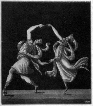 Ludovico and Justina Casagli in "Iphigenie"